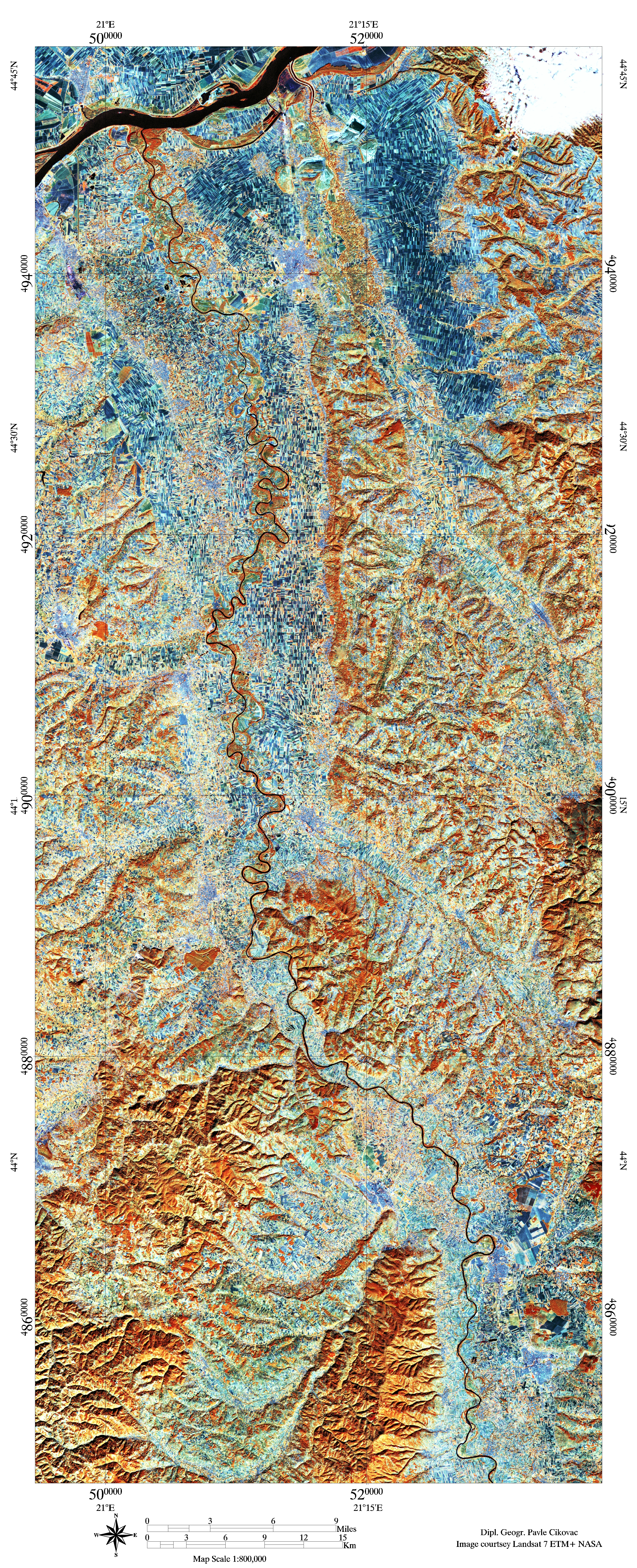 Upper course of the Velika Morava in Serbia